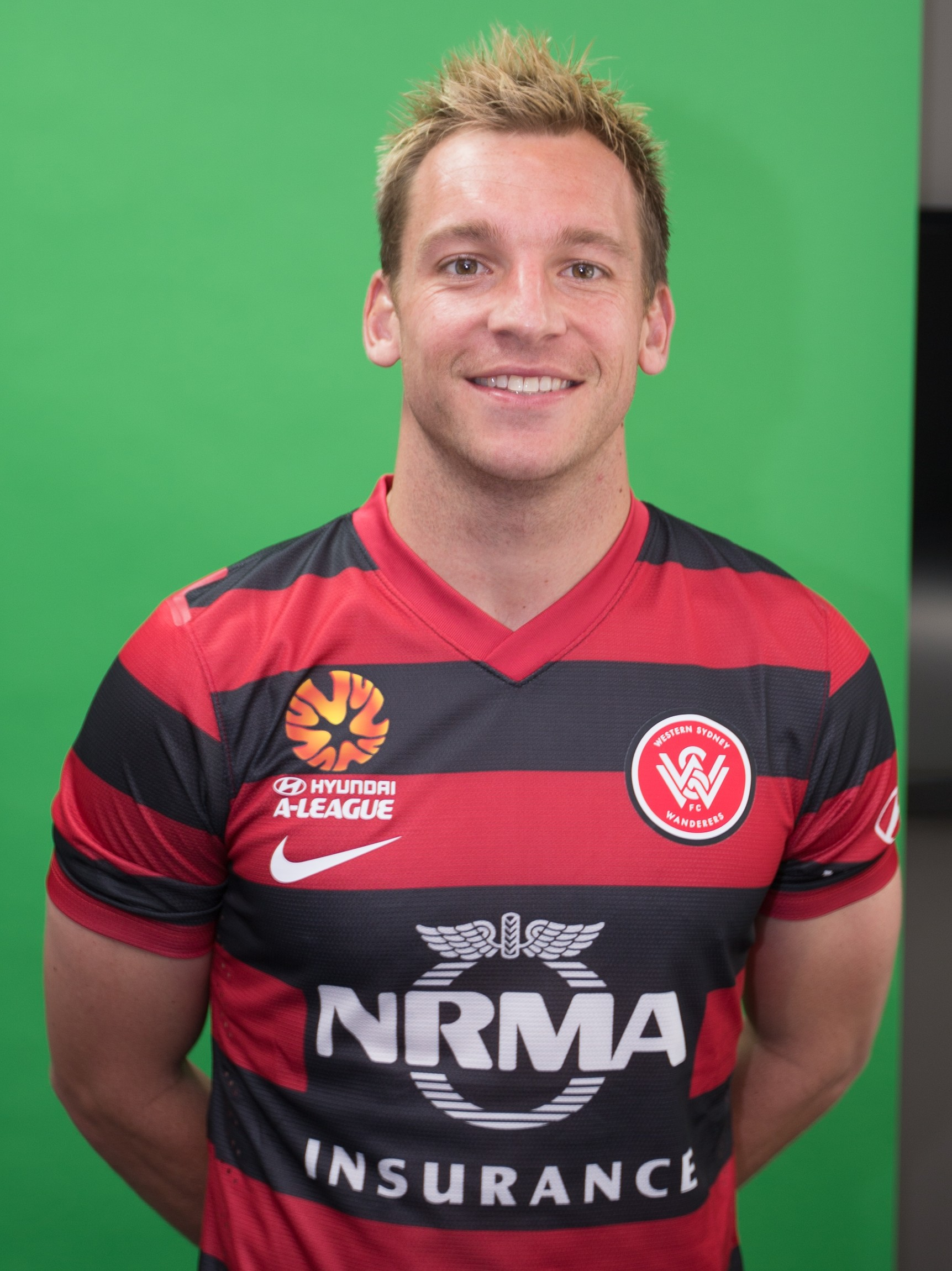 Brendon Santalab Headshot